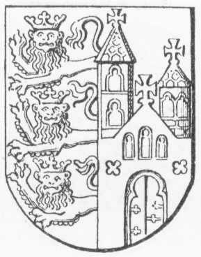 Coat of arms of Ribe, a chartered town in Denmark. Illustration from the article Om danske By- og Herredsvaaben written by Anders Thiset and published in Tidsskrift for Kunstindustri 1893-1894.